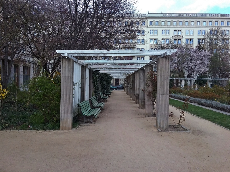 Small rose garden with Pergola in Berlin-Friedrichshain